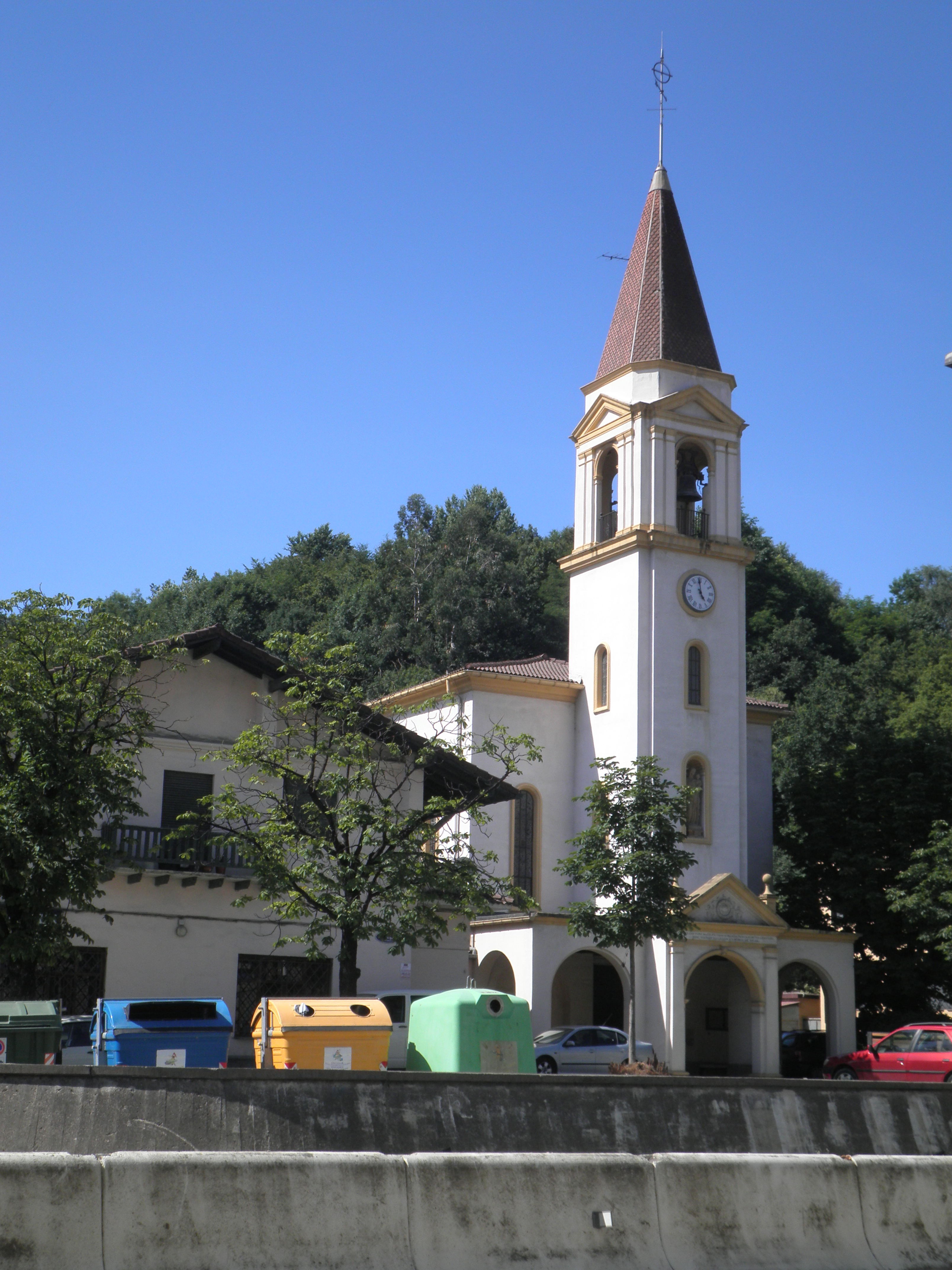 Church of Añorga.